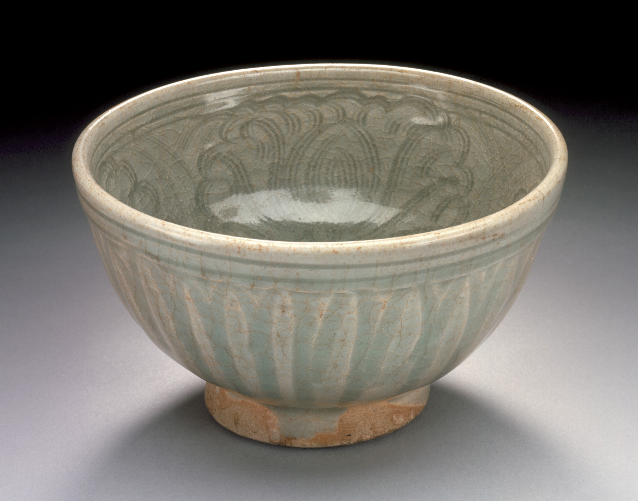 Thailand, Sawankhalok, Sri Satchanalai, 15th century Furnishings; Serviceware Stoneware with celadon glaze Height: 3 1/2 in. (8.89 cm); Diameter: 6 3/4 in. (17.15 cm) Gift of Maureen Russell in honor of Col. and Mrs. G. F. Russell (AC1997.252.1) South and Southeast Asian Art